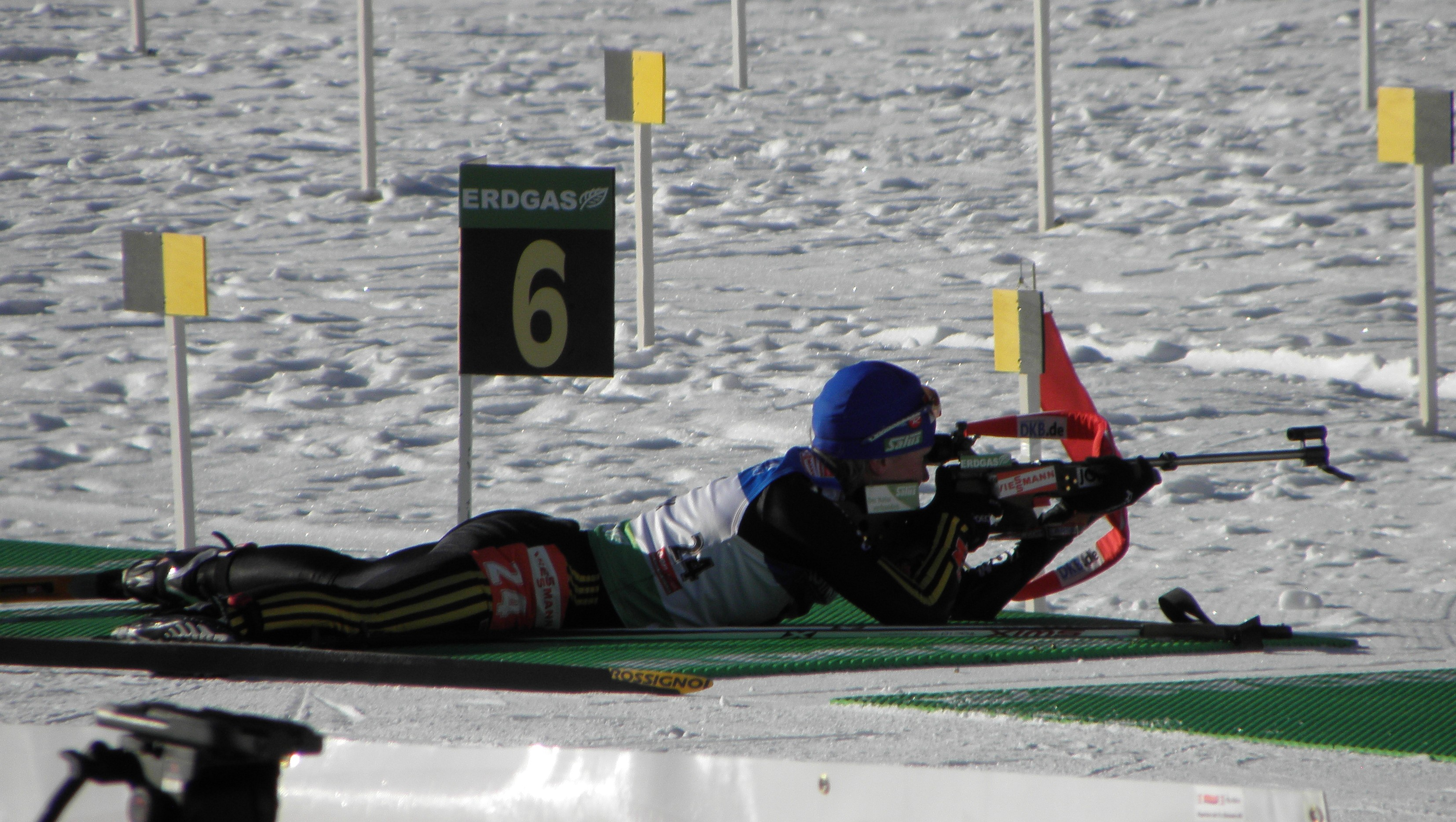 Martina Beck in Antholz, 20-01-2010